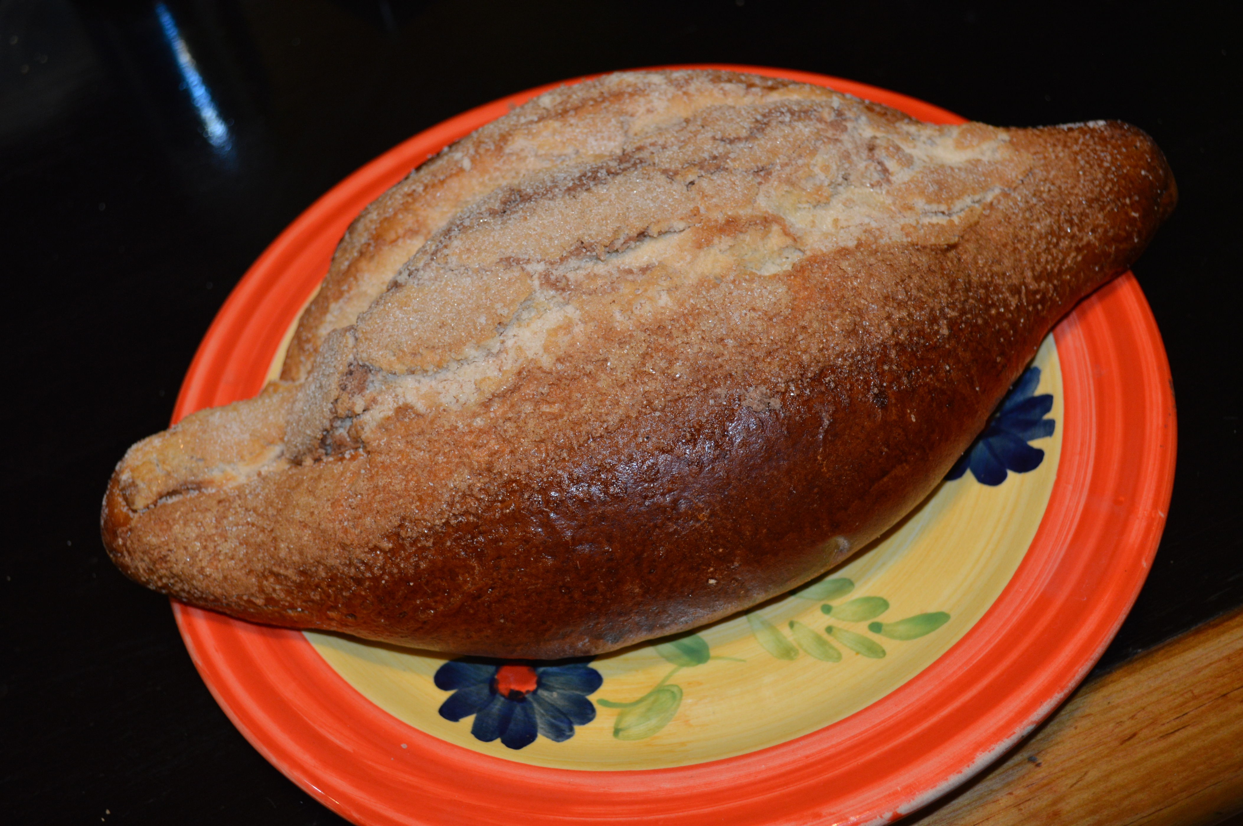 A regional, slightly sweet bread called pechuga from Atlixco, Puebla, Mexico